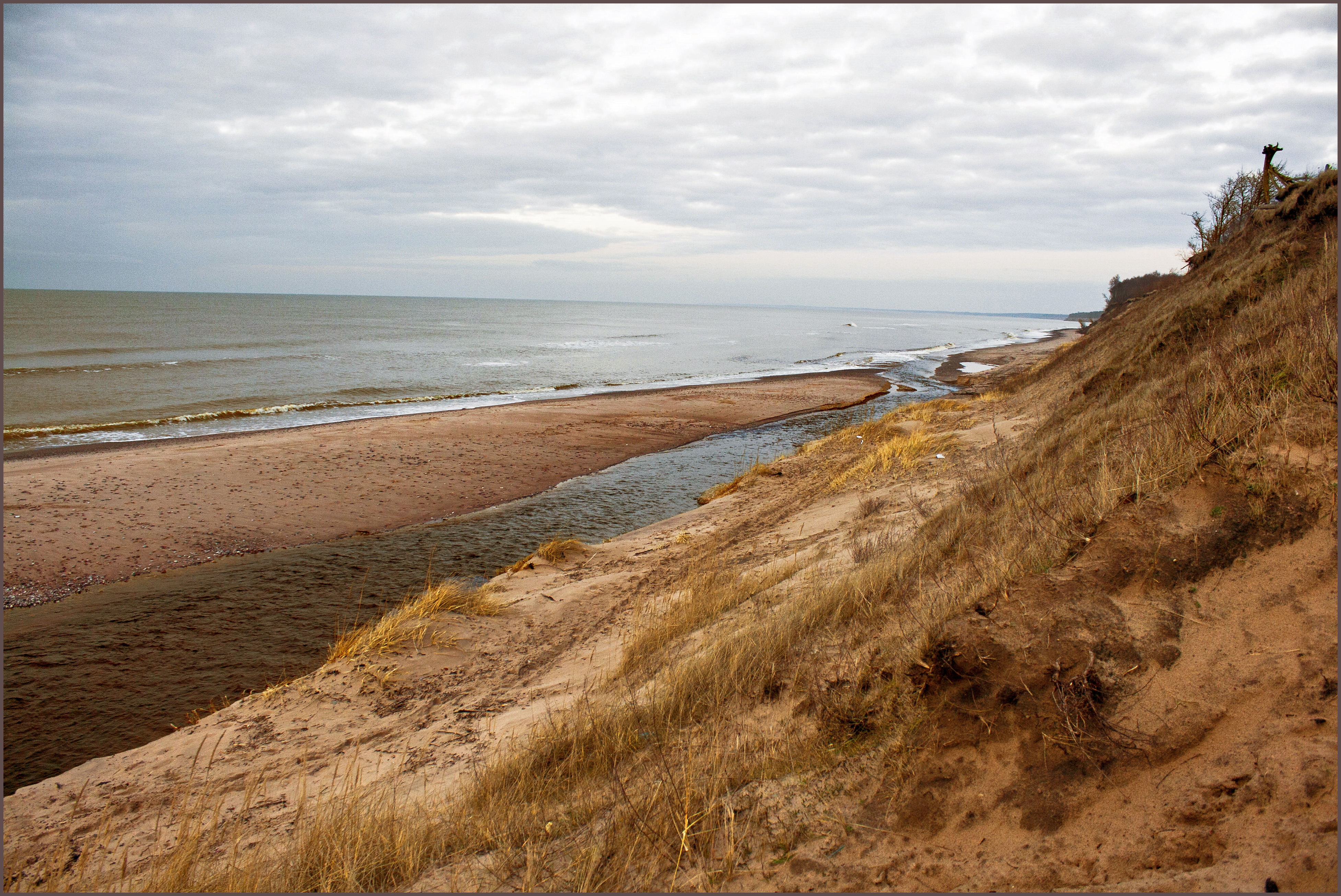 Baltic sea at Jūrkale